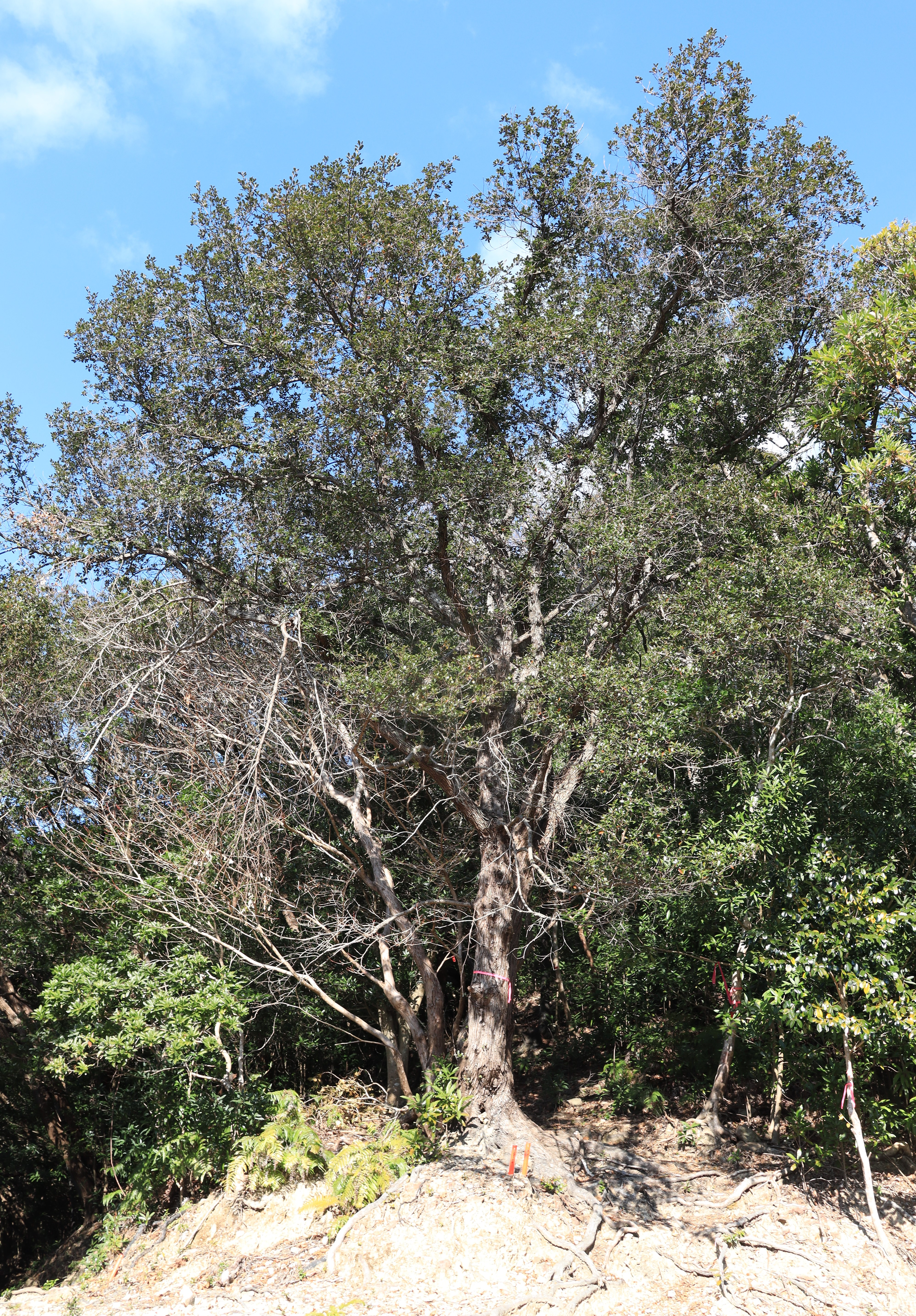 Quercus phillyreoides in Mount Himego, Taiki, Mie Prefecture, Japan.